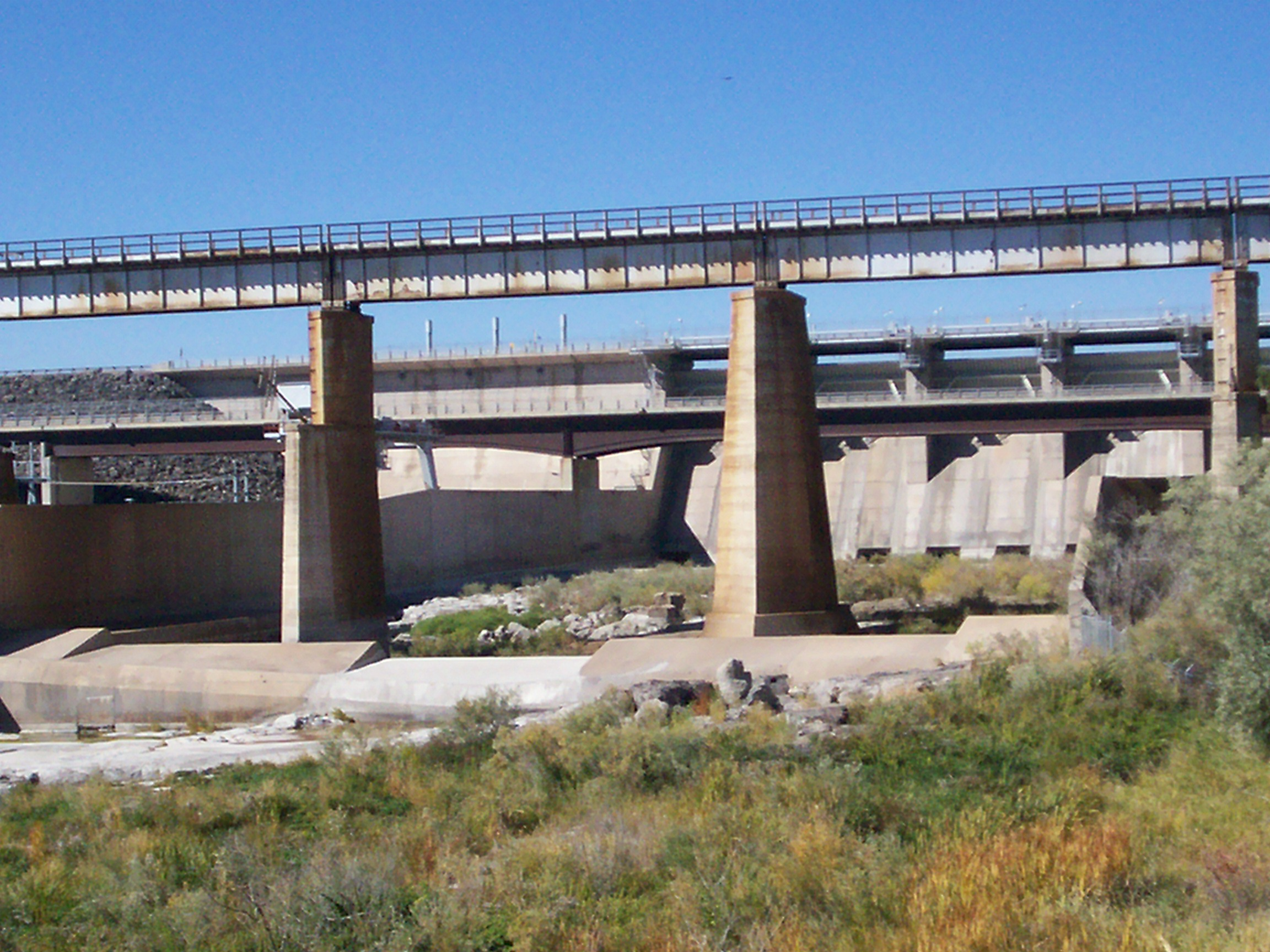 American Falls Dam, American Falls, Idaho by David Jolley.